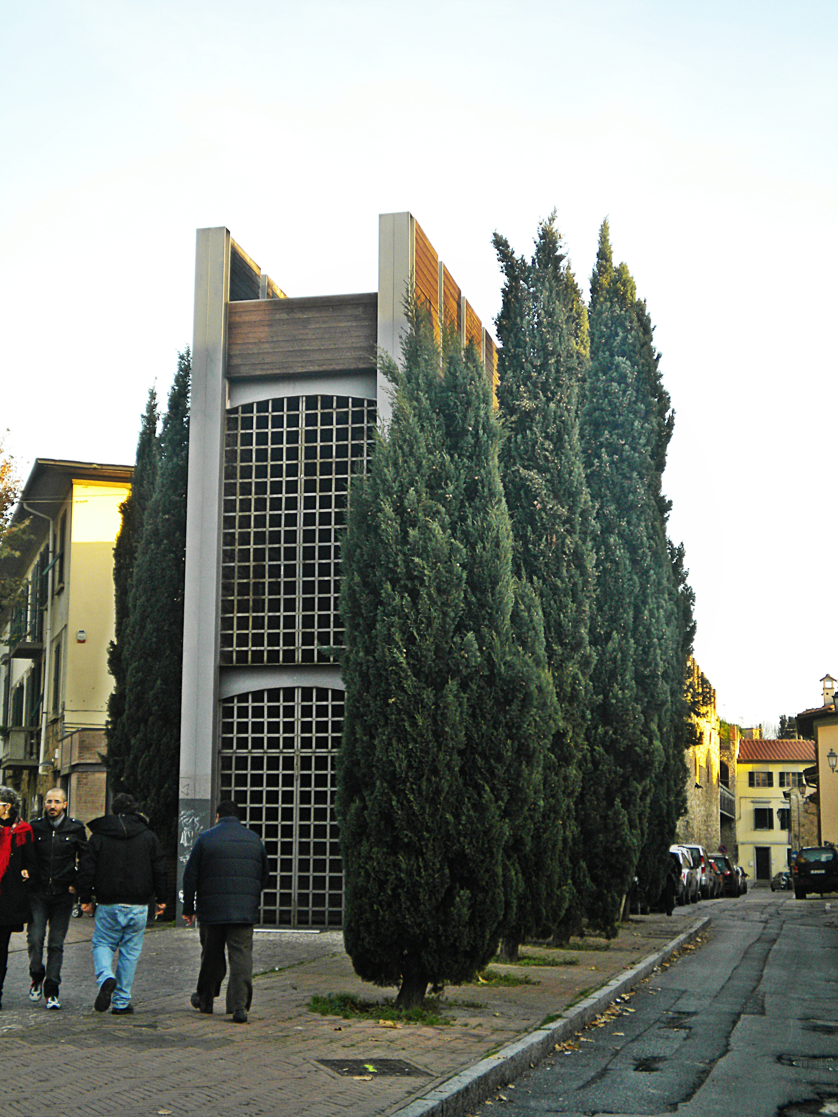 quarterdeck